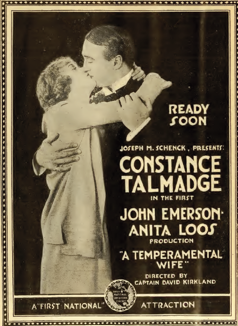 A Temperamental Wife (1919), a film directed by David Kirkland